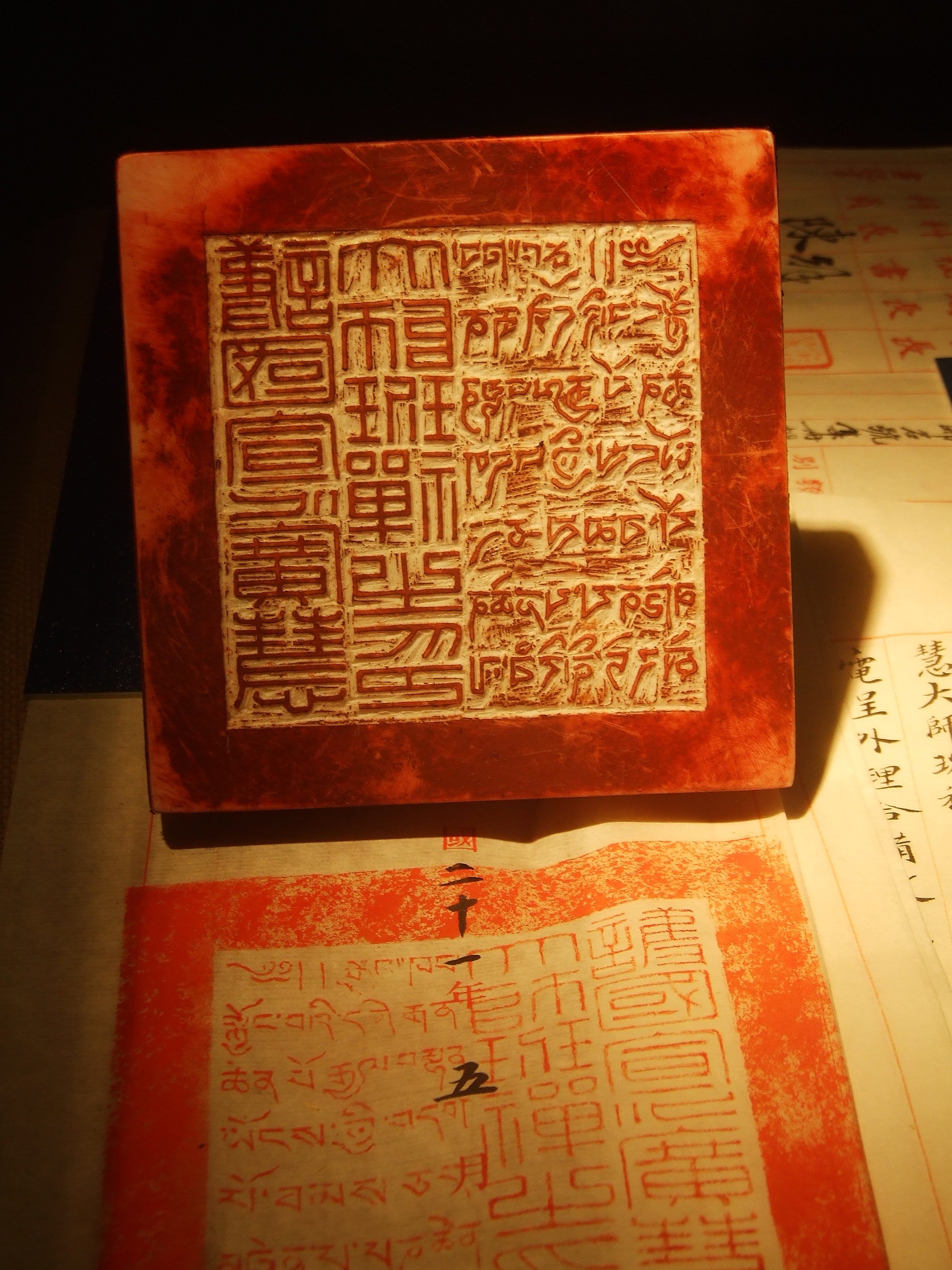 Seal of 10th Panchen Lama (Choekyi Gyaltsen awarded by Republic of China (1912-1949